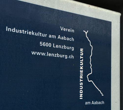 Information des Vereins Industriekultur am Aabach